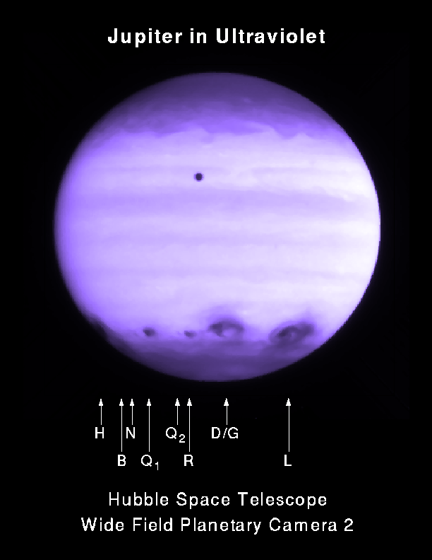 Ultraviolet image of Jupiter taken by the Wide Field Camera of the Hubble Space Telescope. The image shows Jupiter's atmosphere at a wavelength of 2550 Angstroms after many impacts by fragments of comet Shoemaker-Levy 9. The most recent impactor is fragment R which is below the center of Jupiter (third dark spot from the right). This photo was taken 3:55 EDT on July 21, about 2.5 hours after R's impact. A large dark patch from the impact of fragment H is visible rising on the morning (left) side. Proceding to the right, other dark spots were caused by impacts of fragments Q1, R, D and G (now one large spot), and L, with L covering the largest area of any seen thus far. Small dark spots from B, N, and Q2 are visible with careful inspection of the image. The spots are very dark in the ultraviolet because a large quantity of dust is being deposited high in Jupiter's stratosphere, and the dust abosrbs sunlight. The dark circle on the upper half is the moon Io in front of Jupiter.